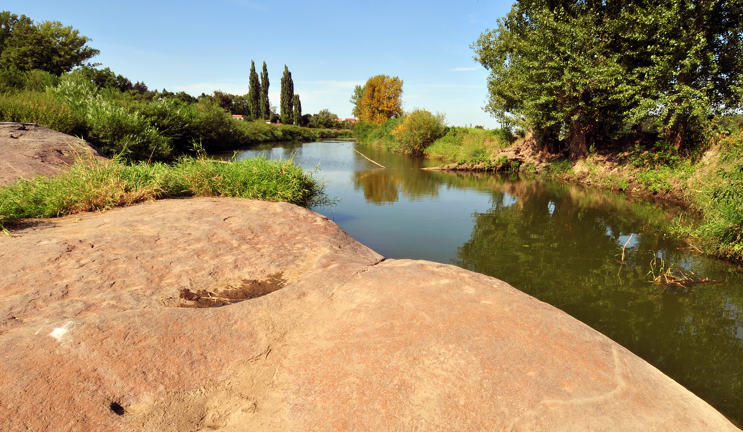 The Nixstein in Strehla, Saxony, Germany.